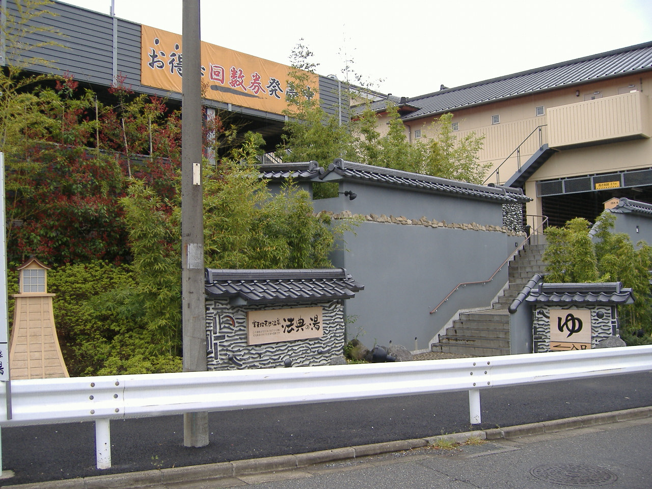 Super Sento"Houten no Yu" (Ichikawa, Japan)